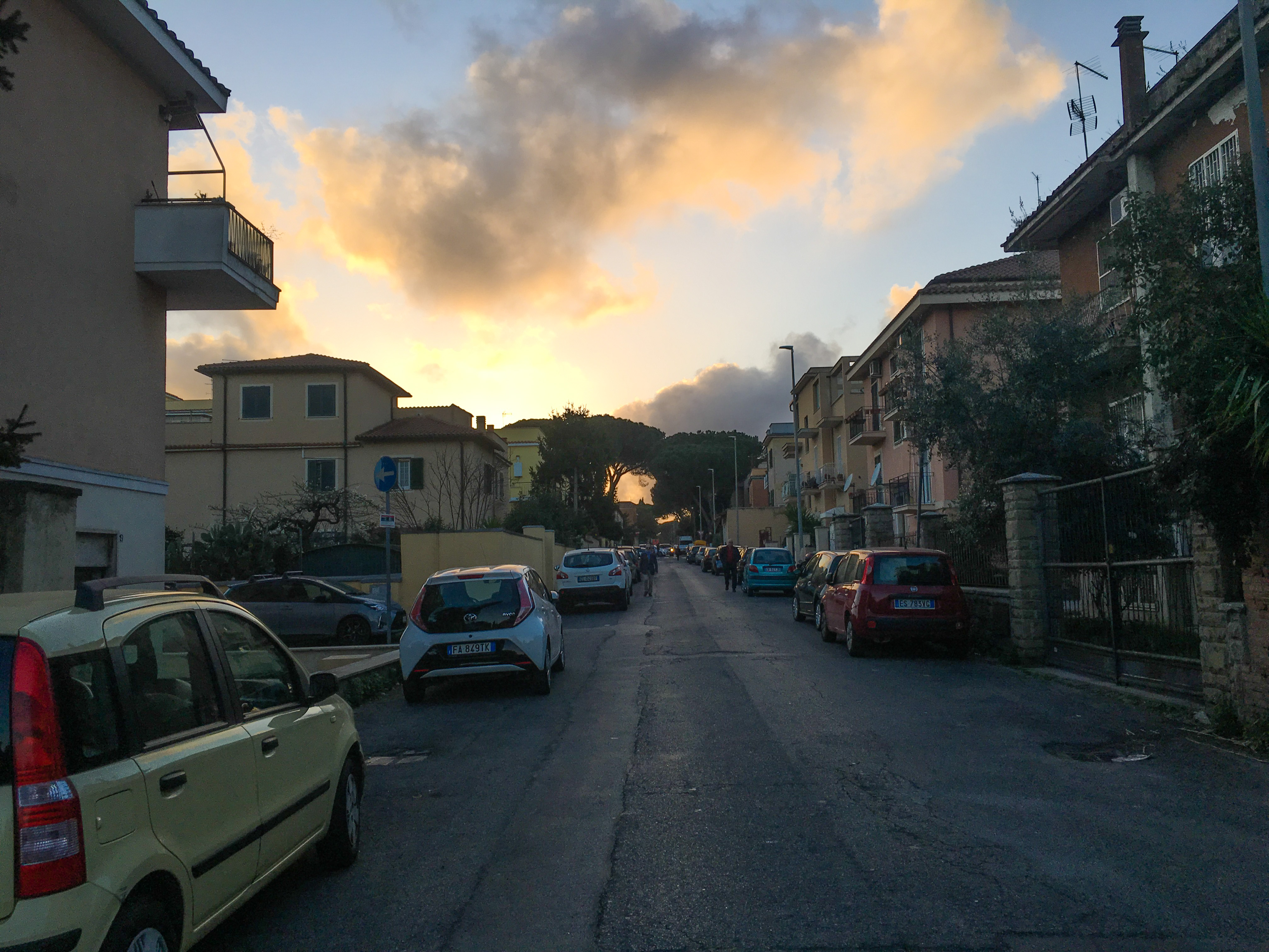 Via di San Tarcisio facing west